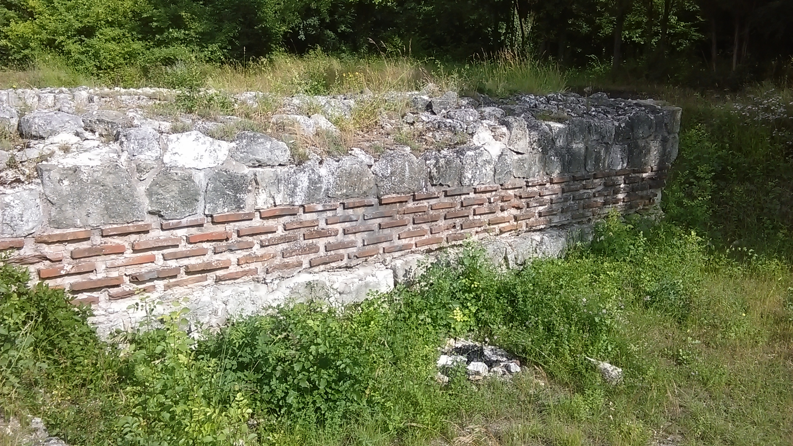 Early christian basilica ruins near Varna